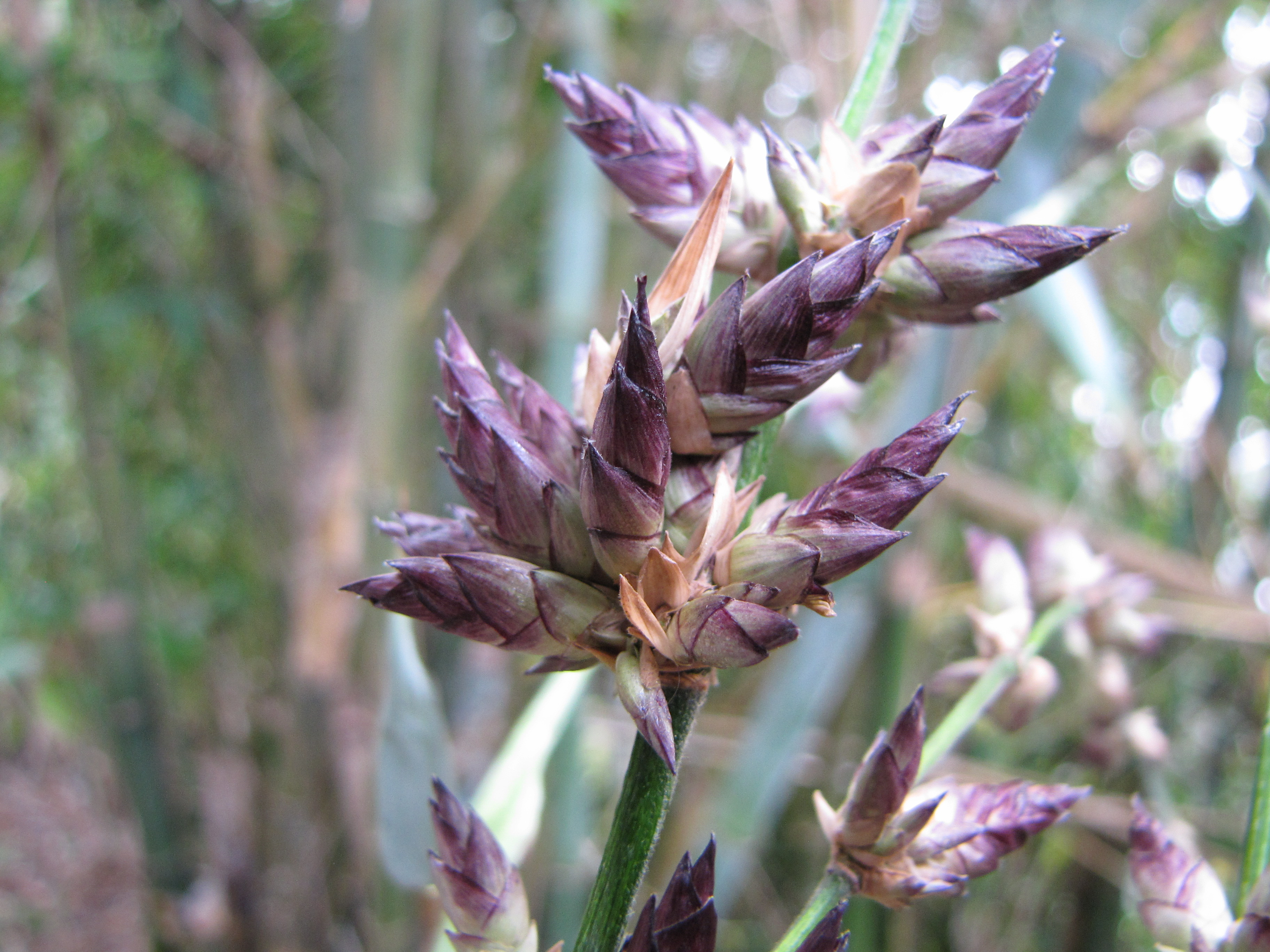 Unknown bamboo (Unknown bamboo) Seeds at Makawao, Maui, Hawaii. June 14, 2012 #120614-7438 - Image Use Policy